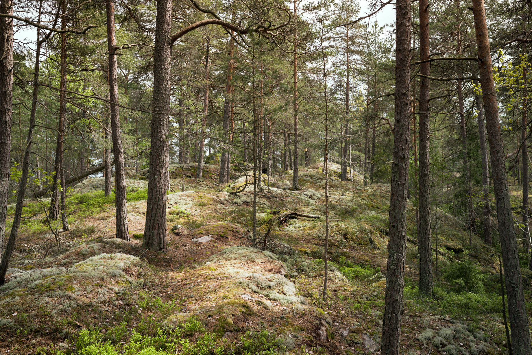 Parts of the reserve consist of rocky terrain with pine trees and lichen